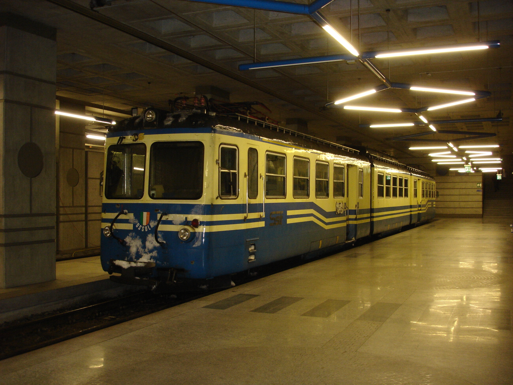 ABe 8/8 23, owned by SSIF, at locarno underground station.